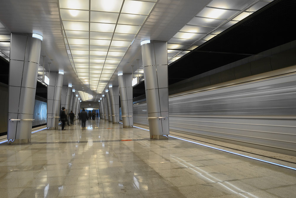 Kozia Sloboda (Kaja bistase) metro station in Kazan city